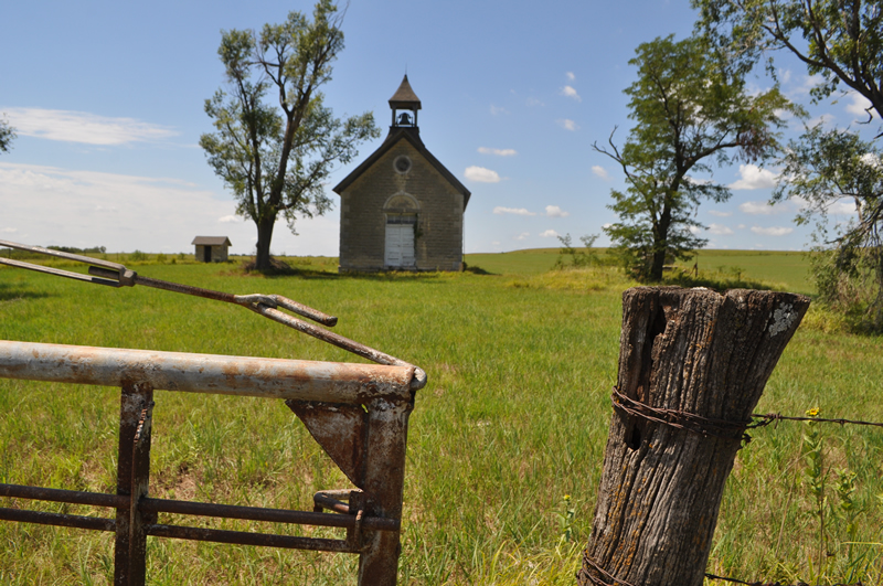 Summer 2011. View of the Bichet school from the gate.